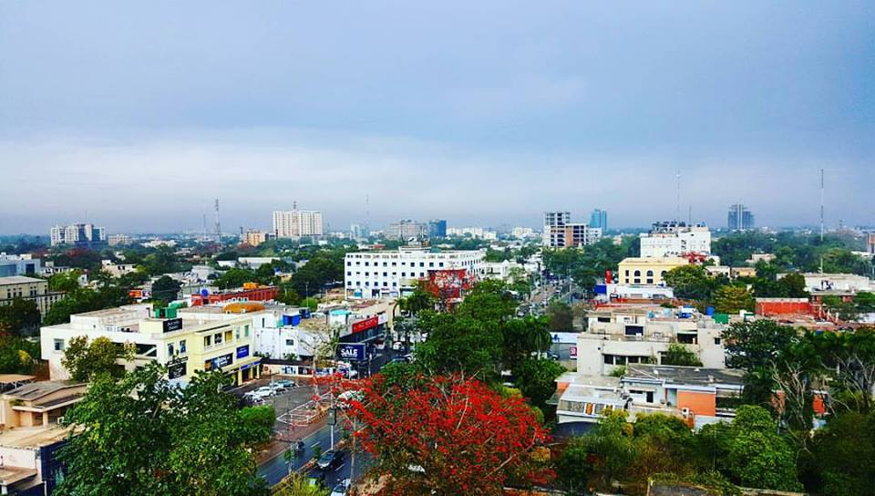 this is the picture of M.M Alam road, Lahore.